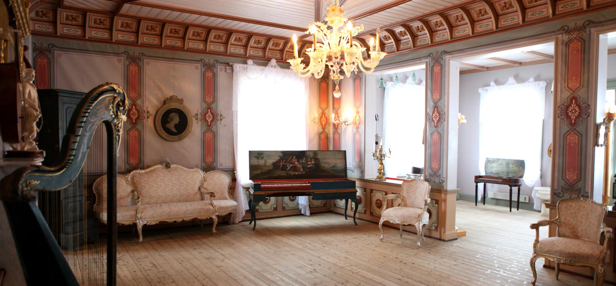 Exhibition in the manor, the Garden room.